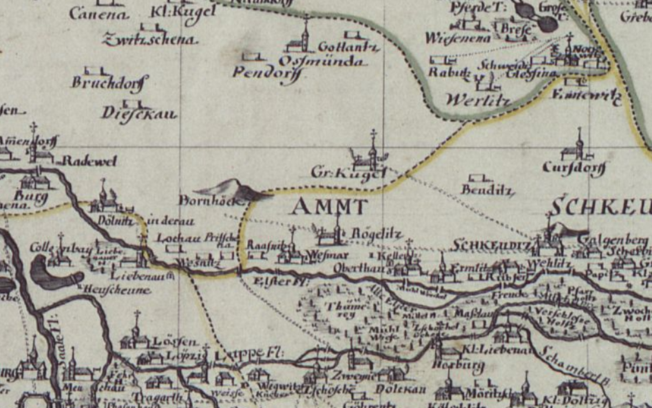 Detail of: Karte vom Leipziger Kreis in Sachsen, kolorierte Handzeichnung with depiction of the burial mound Bornhöck